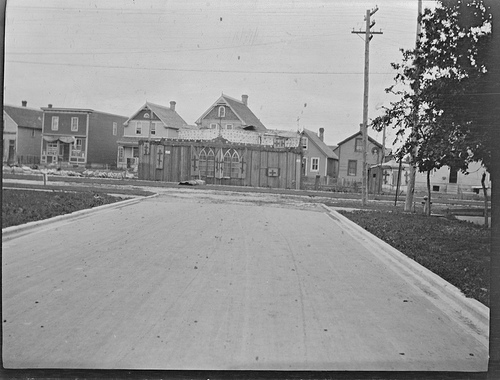 Early Cathedral in Winnipeg